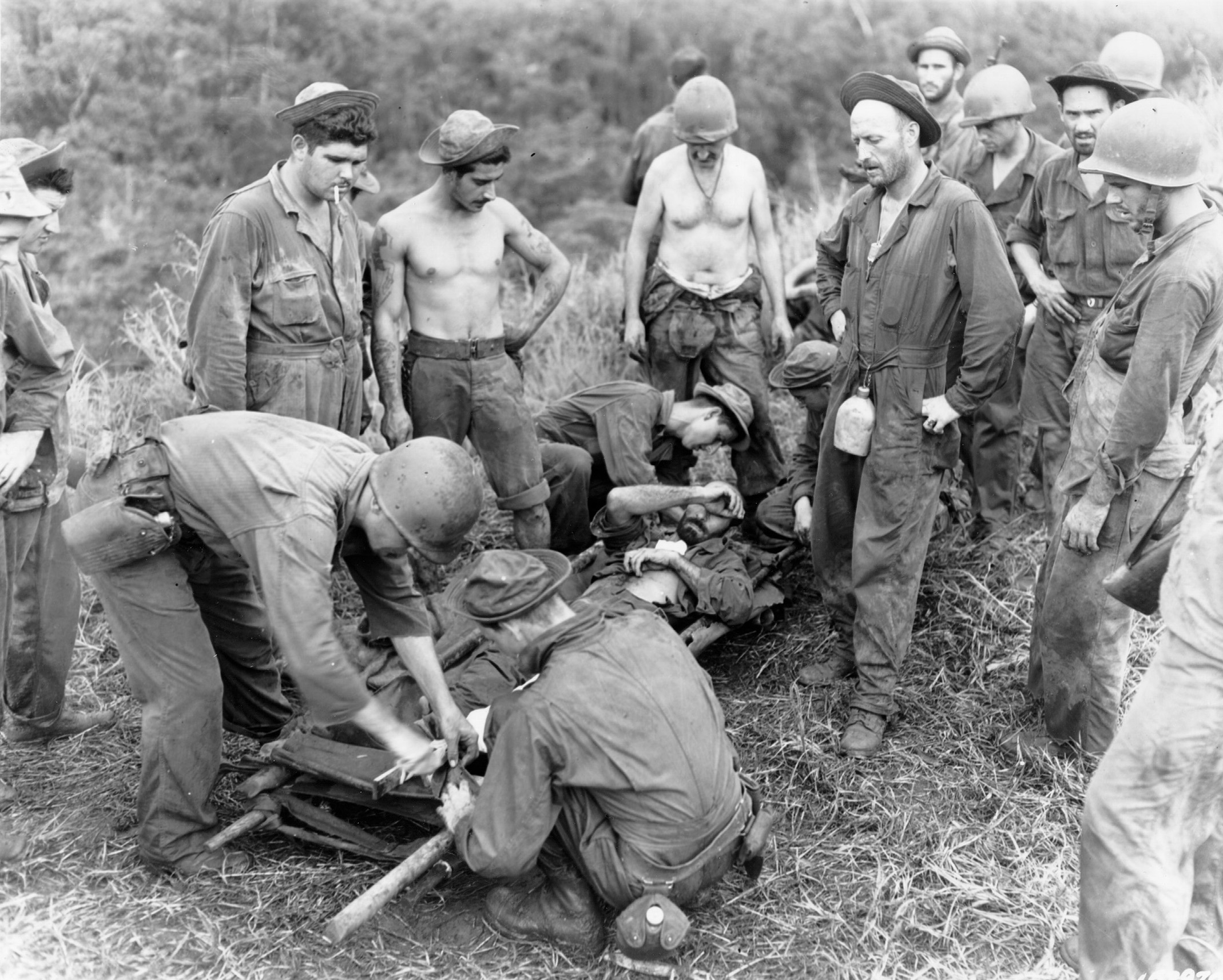 GUADALCANAL: An American casualty from the front line fighting is being transferred from a makeshift stretcher to a real one, before being taken through the jungle and down the Matanikau River. The men are members of the US Army's 35th Infantry Regiment, 25th Division. 15 Jan 1943.